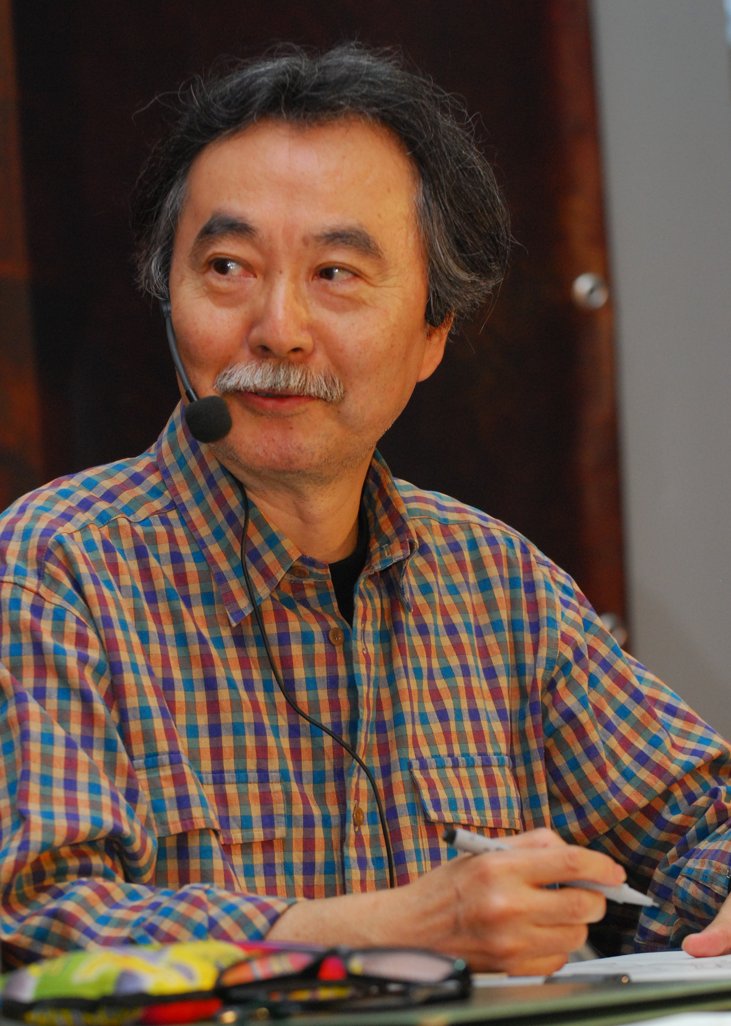 Jiro Taniguchi at Lucca Comics and Games 2011